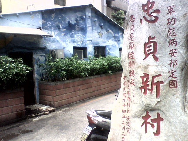 Entry to a Military dependent's village ("Zhongzhen New Residential Quarter") on Ln. 14, Jiangong 1st Rd., East Dist., Hsinchu City 300, Taiwan(R.O.C.). A memorial stone, newly erected in 2005, is also in the picture. On the stone, the first part of the inscription is about the services to the country, and the second part is about harmony with the neighborhood and prospering the family. The stone is a replacement of a gate. The gate itself had been rebuilt several times. Originally there was a couplet on the gate which wrote about emotions and determination of recovering homeland. When the gate was torn down for road construction and rebuilt later, a Mr. Yang contributed a new couplet, which became the inscription on this stone. The stone was erected on March 25, 2005, during reconstruction of the village. The stone is for remembering the original entry of the village. See page 11 of the 37th issue of Hsichu City Archives Quarterly (2007-12) ISSN 1028-7329 [in Traditional Chinese]